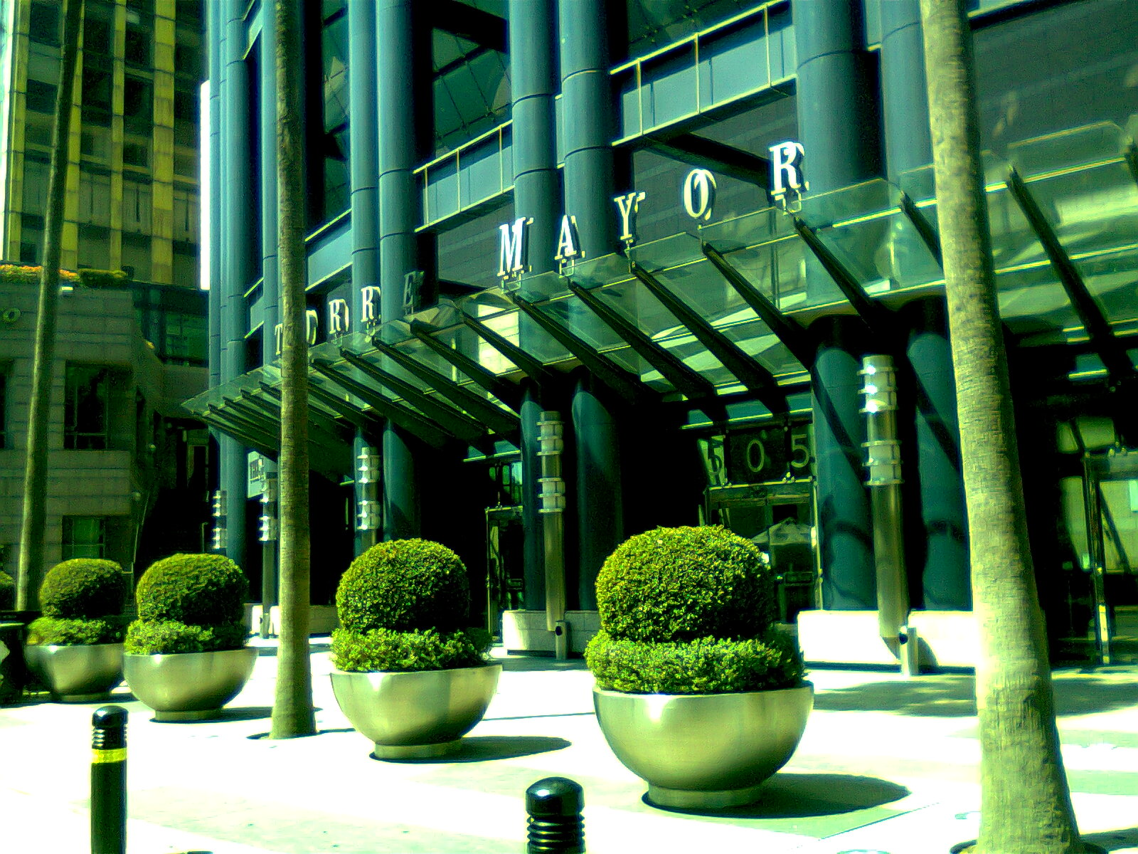 Torre Mayor, the tallest skyscraper in Mexico.